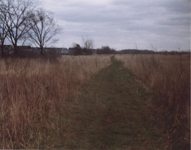 The site of M-6 looking eastbound just before what is the Kalamazoo Ave. exit today.